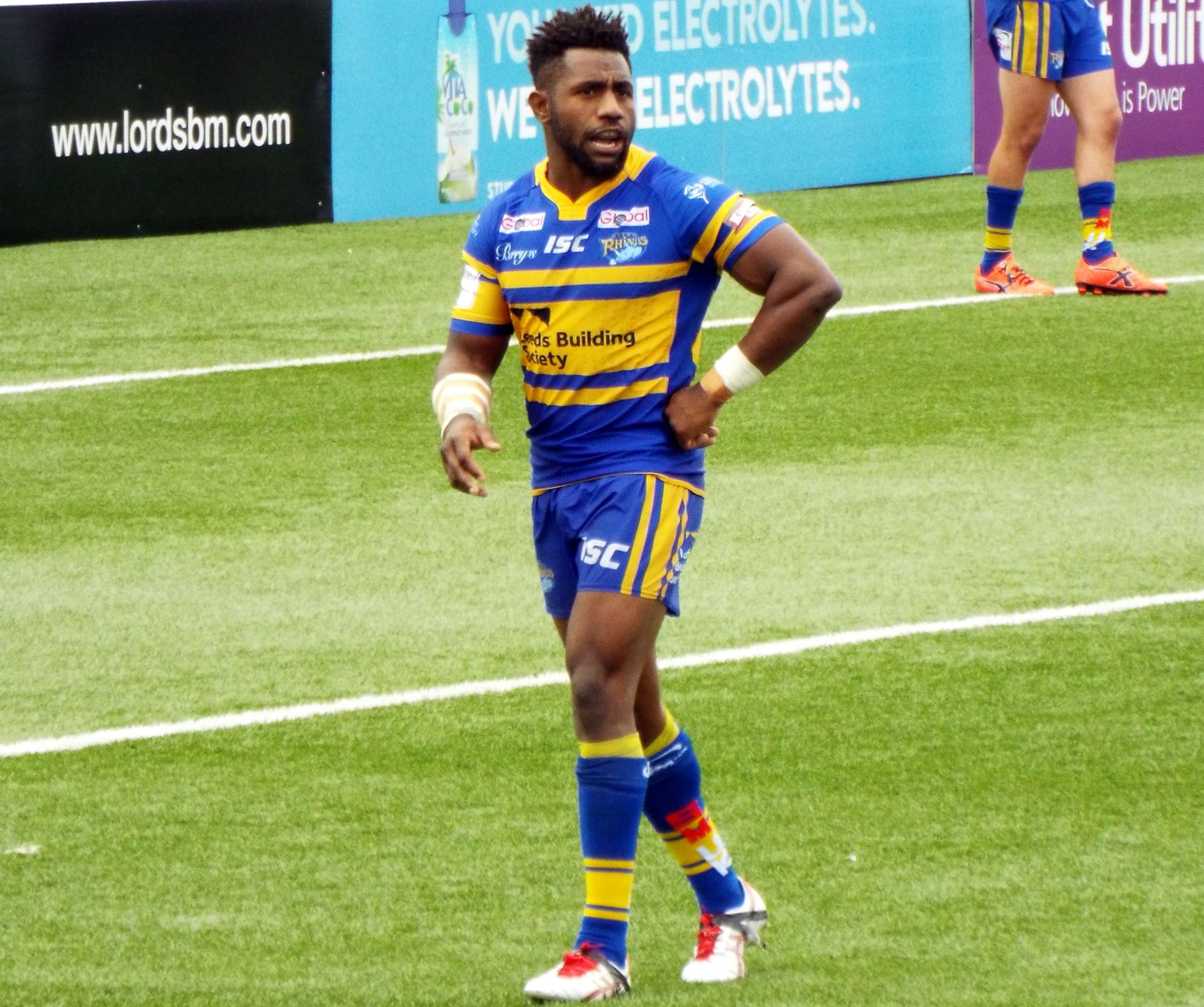 James Segeyaro